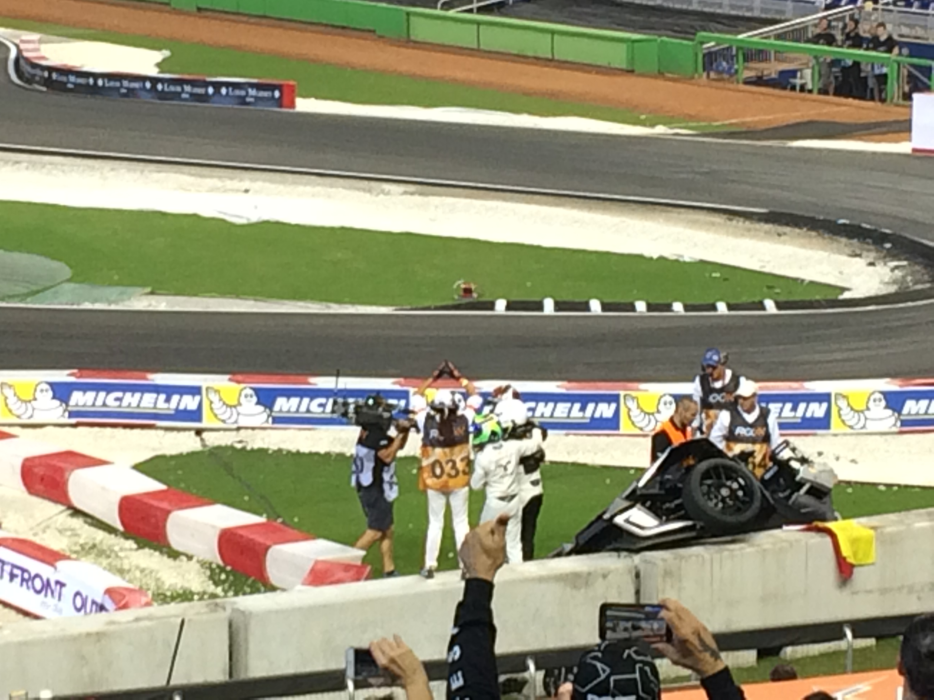 2017 Race of Champions - Saturday, January 21